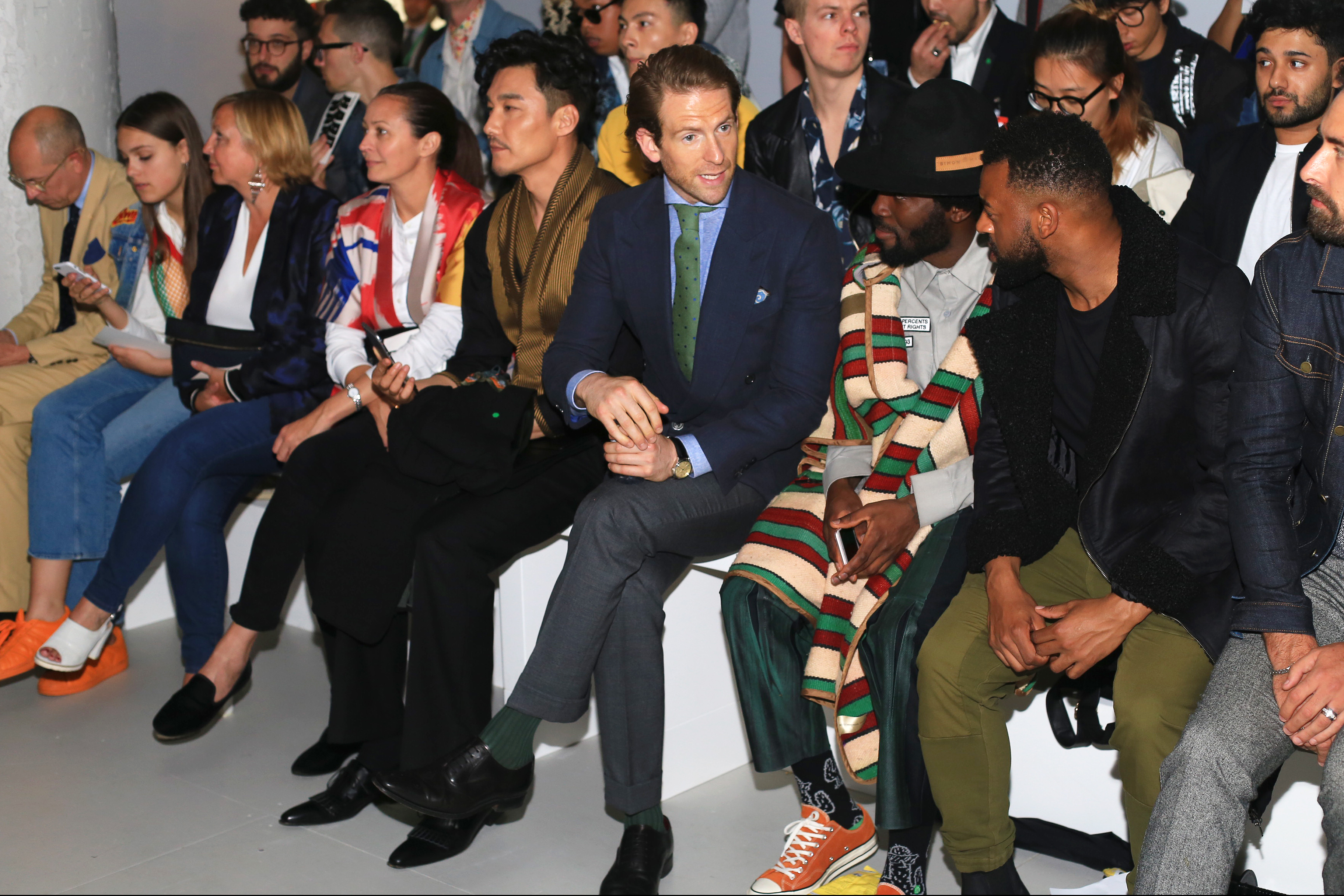 Craig McGinlay attending lcm ss17